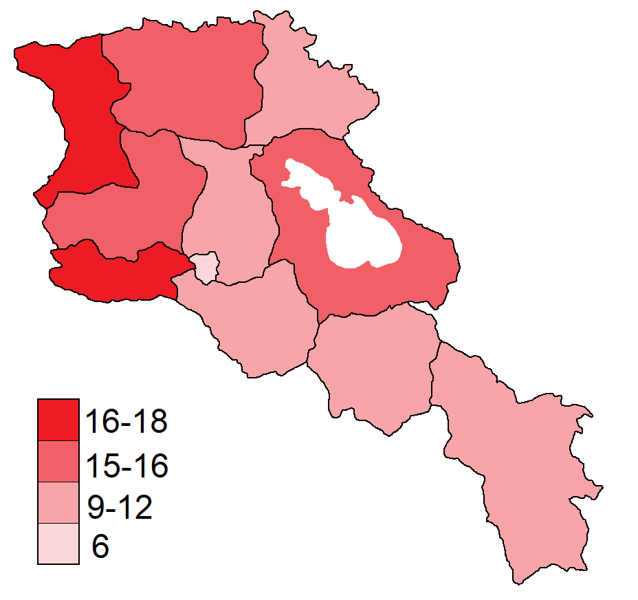 Share of the votes (%) received by the Armenian Communist Party in the 1999 Armenian parliamentary election; based on this (archived on 28 December 2018 at the Wayback Machine)